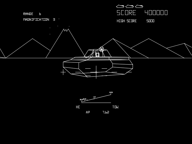 This image could be recreated using vector graphics as an SVG file. This has several advantages; see Commons:Media for cleanup for more information. If an SVG form of this image is available, please upload it and afterwards replace this template with vector version available|new image name . Screenshot of the arcade game The Bradley Trainer, which fell into the public domain due to the fact the game was created for the US Federal Government.